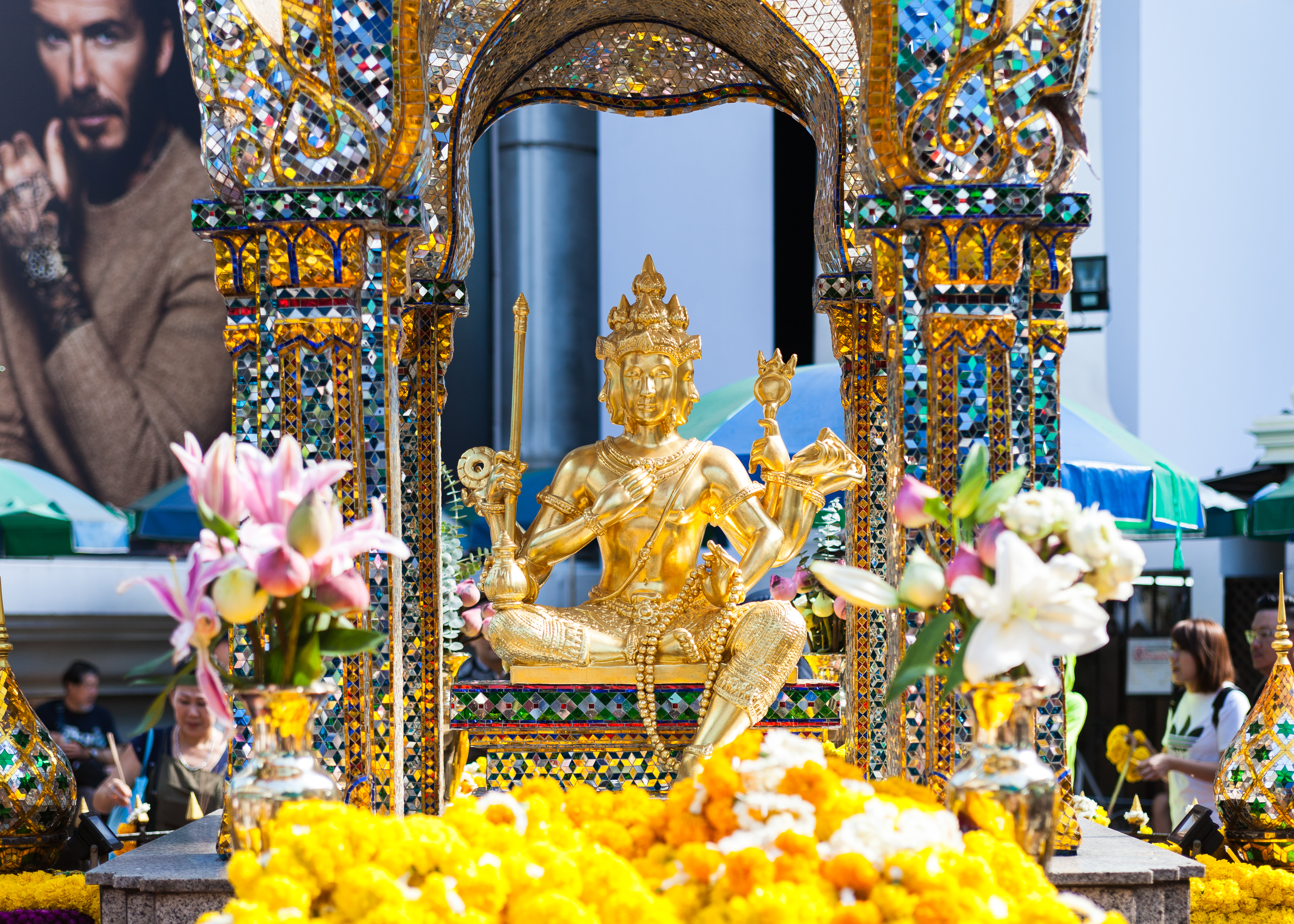 The four-faced Brahma (Phra Phrom) statue at Erawan Shrine, Bangkok.